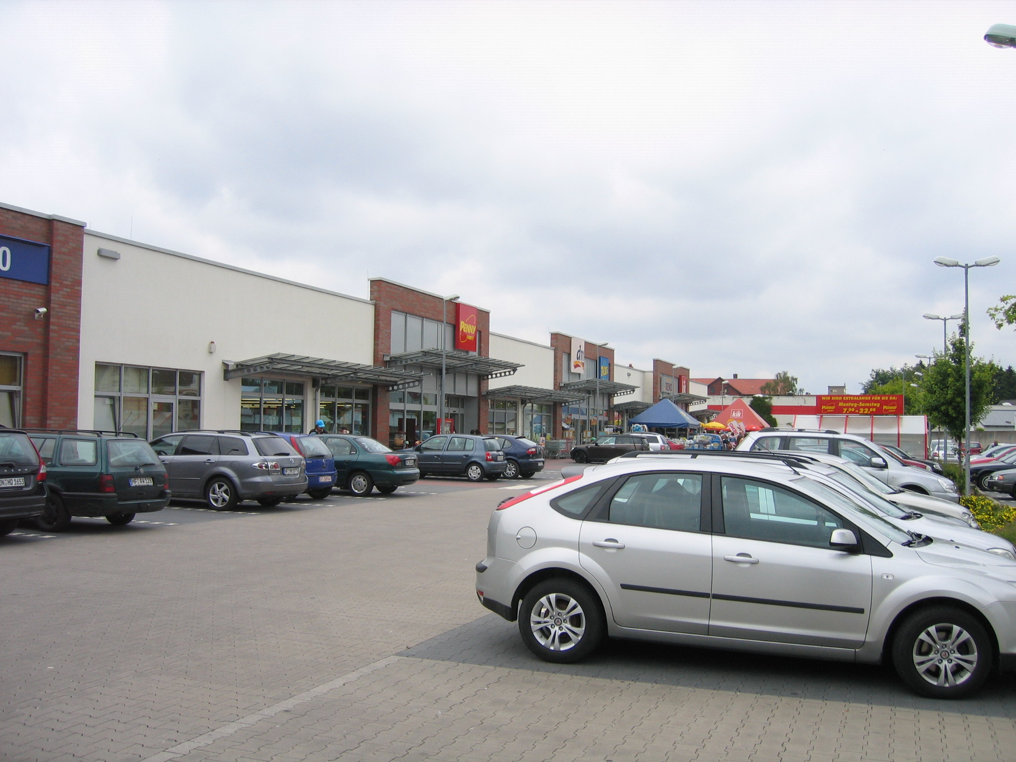 in Bünde, District of Herford, North Rhine-Westphalia, Germany.